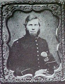 Marion A. Ross, Union Army soldier and participant in the Great Locomotive Chase.